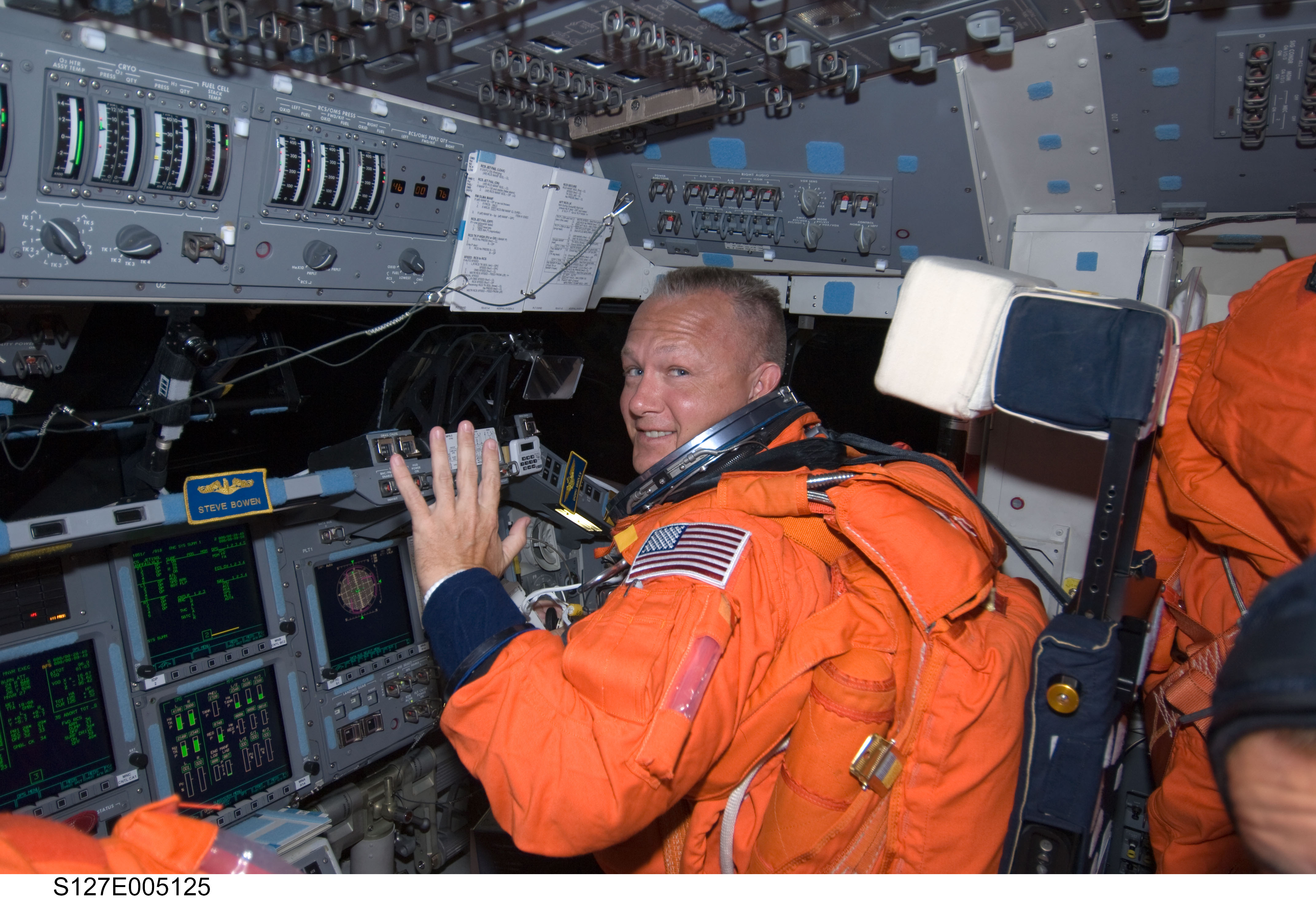 View of Astronaut Doug Hurley, STS-127 Pilot in the Forward (FWD) Flight Deck (FD) of Space Shuttle Endeavour, Orbiter Vehicle (OV) 105 during the STS-127 mission. Hurley is wearing his Launch and Entry Suit (LES).